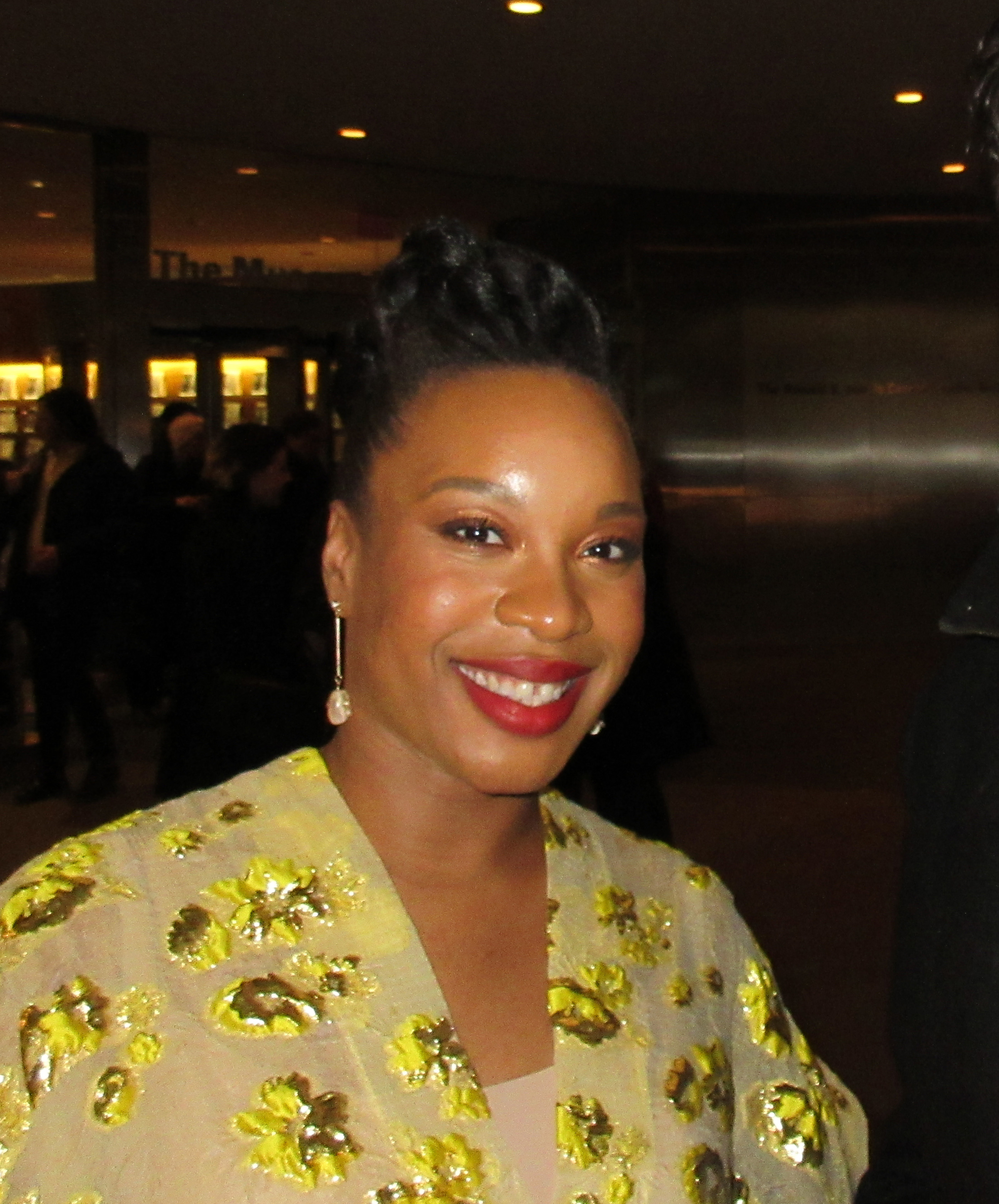 Director of Clemency. NYC March '19.